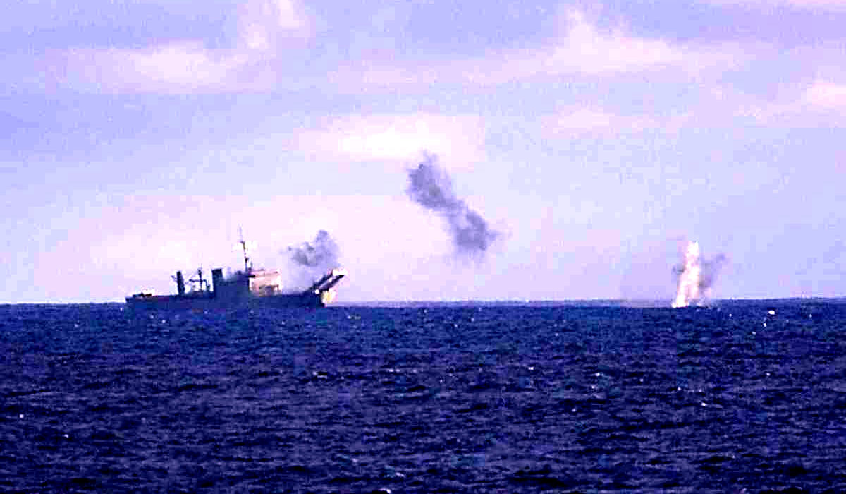 Ex-USS La Moure County (LST-1194), sunk as a target, 10 July 2001. As part of the annual UNITAS exercise she was towed offshore and expended as a target. She is seen here during the first phase of the SINKEX, a gunfire exercise.